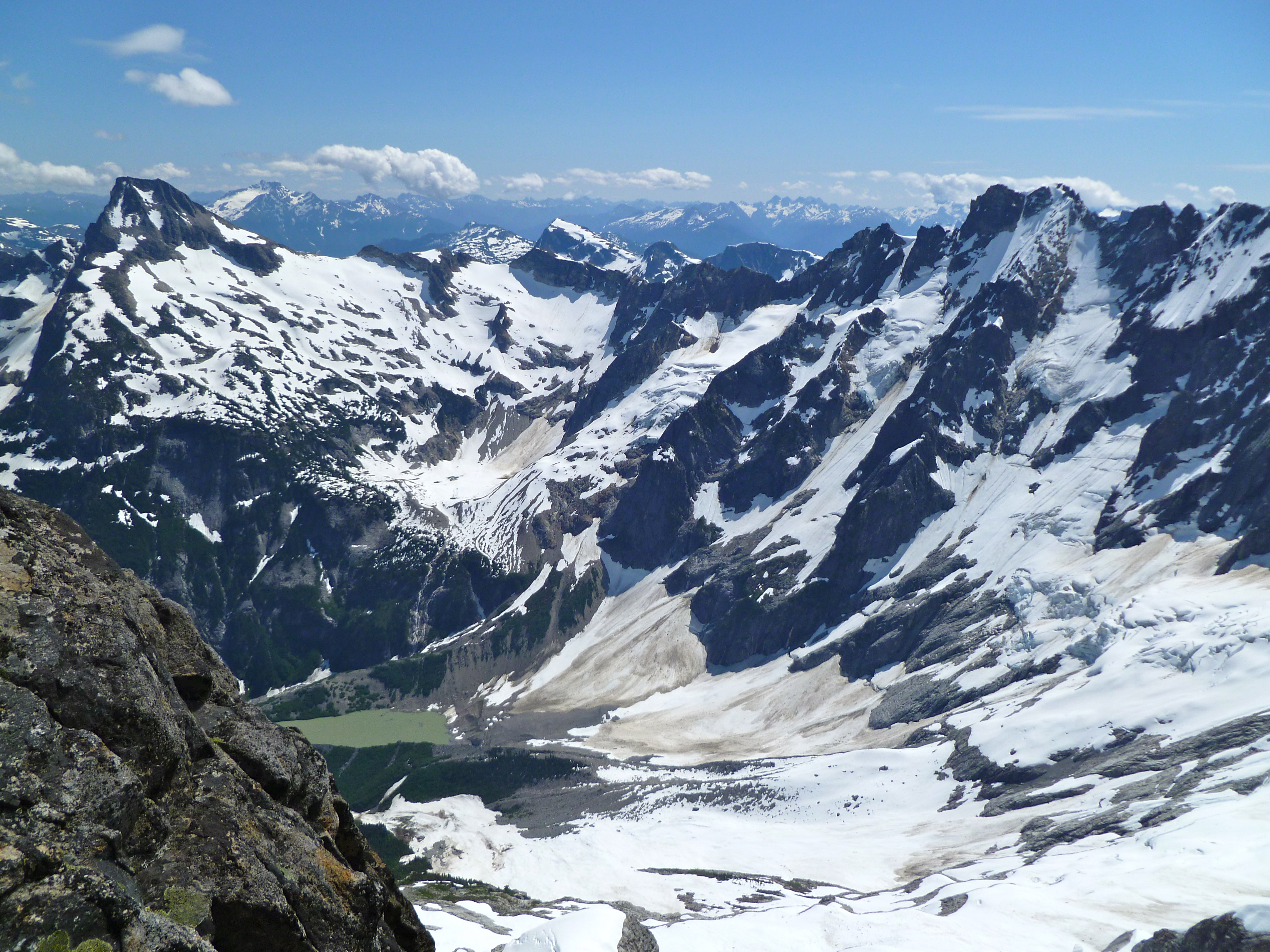 Looking down at Luna Cirque and Lousy Lake (tarn in the lower left corner) from Mt. Challenger in the North Cascades National Park in the Northern Pickett Range, WA. Photo Taken August 3, 2011